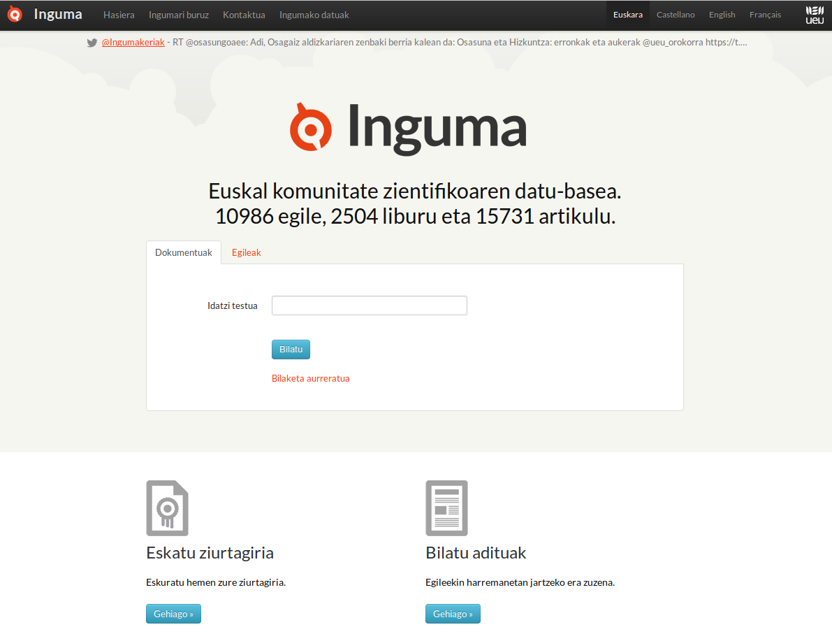 Interface of Inguma, the data base of the basque scientific community.